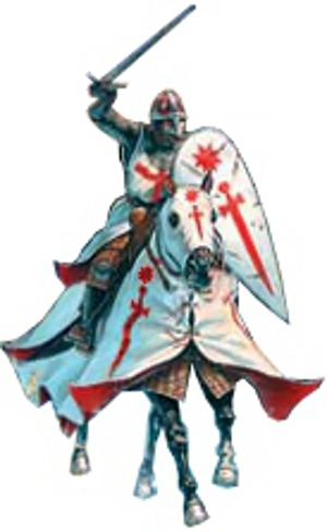 Knight of the Order of Dobrzyń